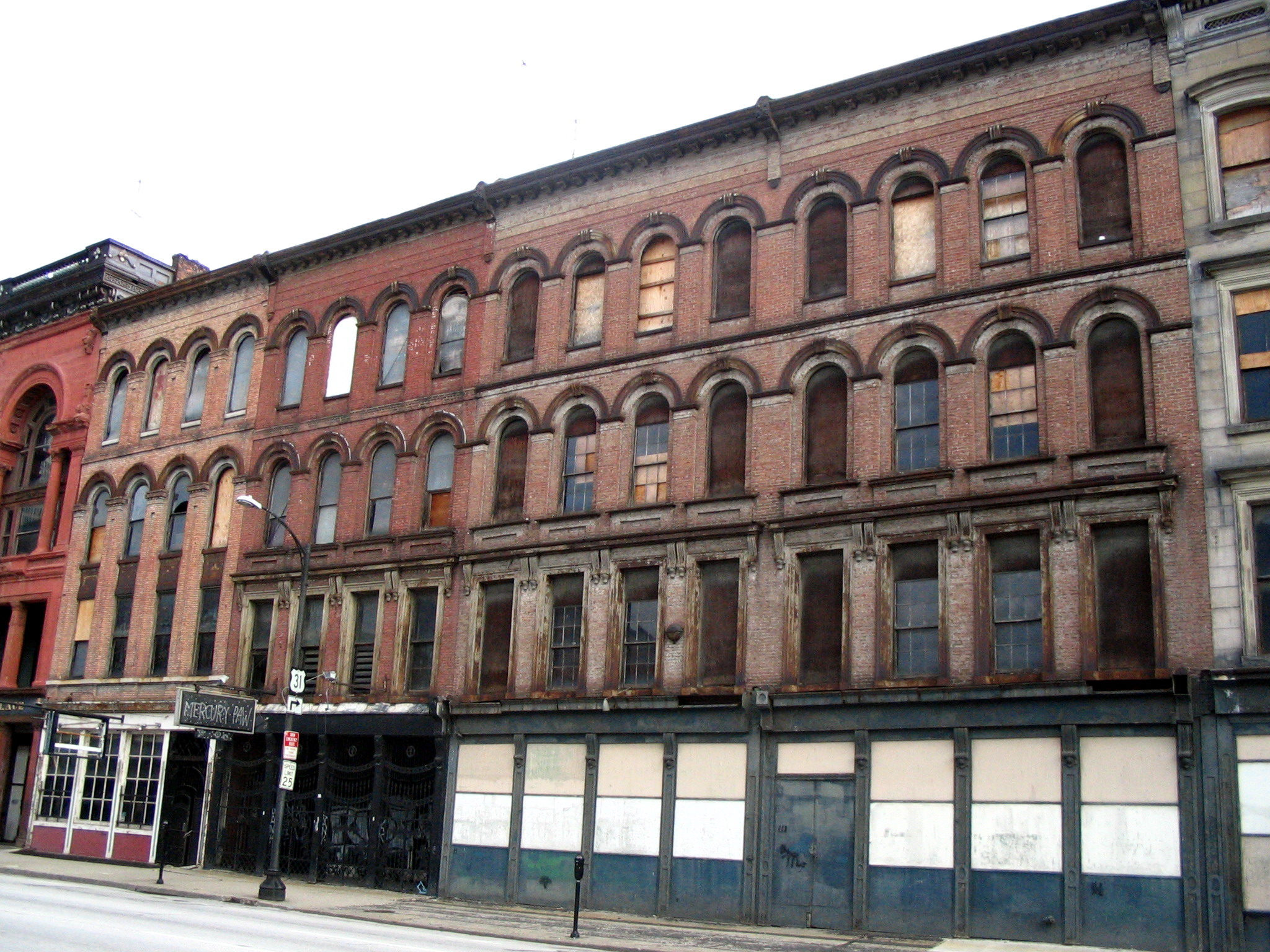 A portion of Louisville's historic Whiskey Row on West Main Street. The building's shown here are addresses 123 - 129 West Main.